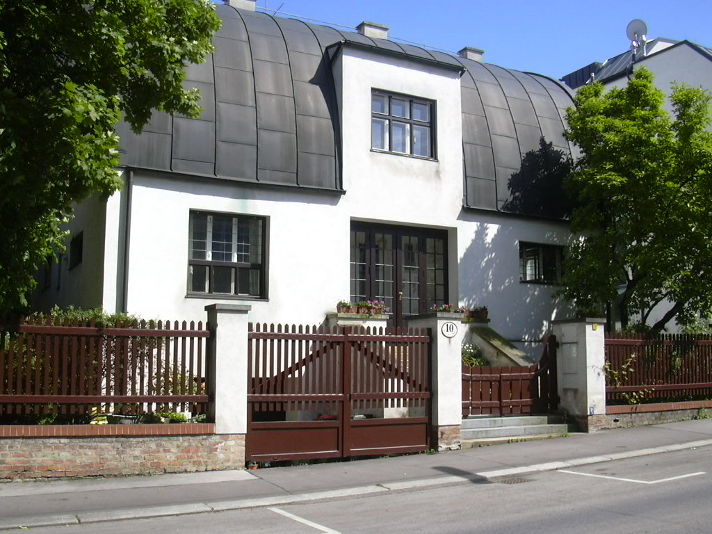 Steiner House in Vienna's 13th district at St.-Veit-Gasse # 10 has been designed in 1910 by Adolf Loos. Friedrich Achleitner calls it a key building of modern architecture.